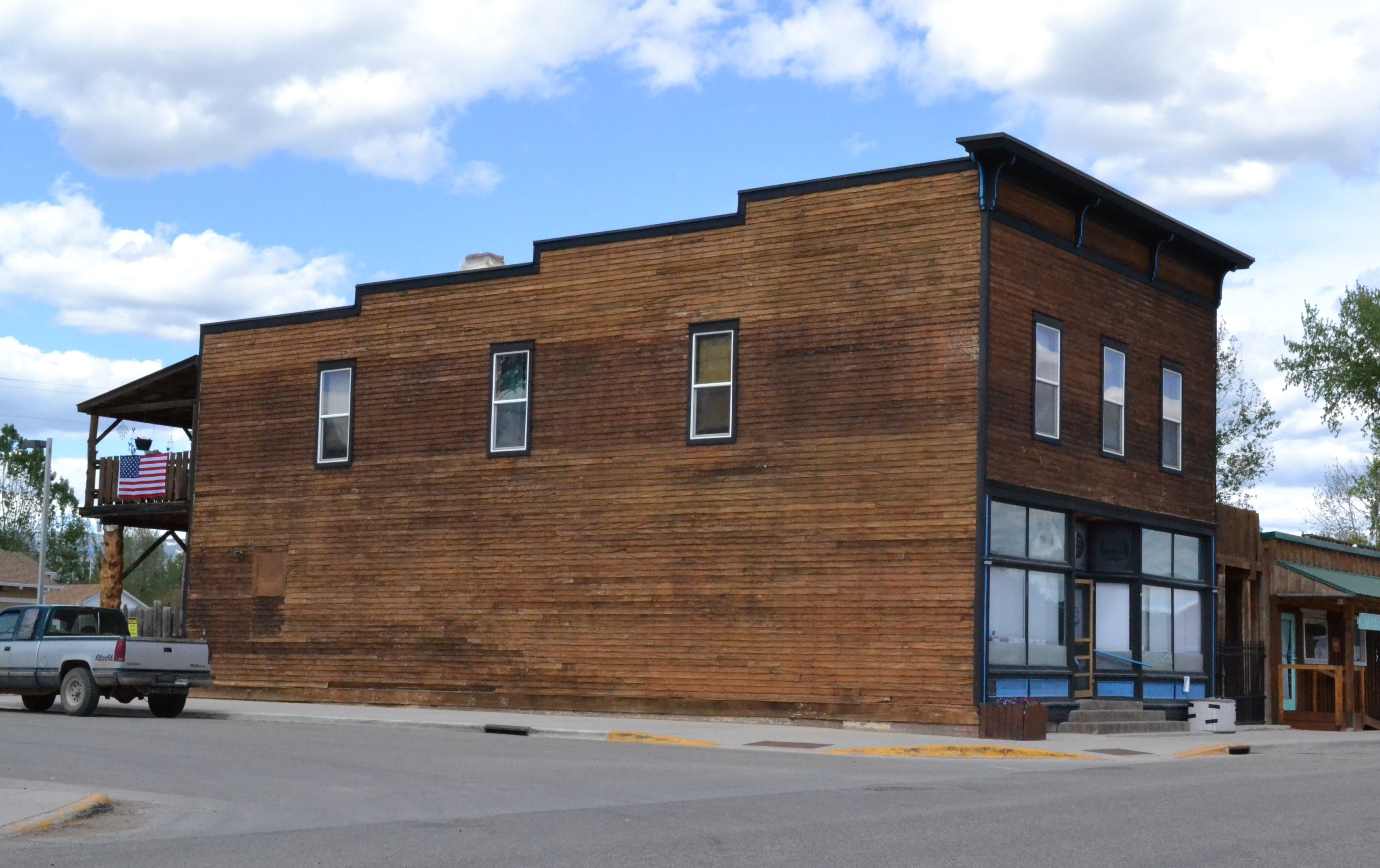 The Ten Sleep Mercantile in Ten Sleep, Wyoming. Listed on the National Register of Historic Places.